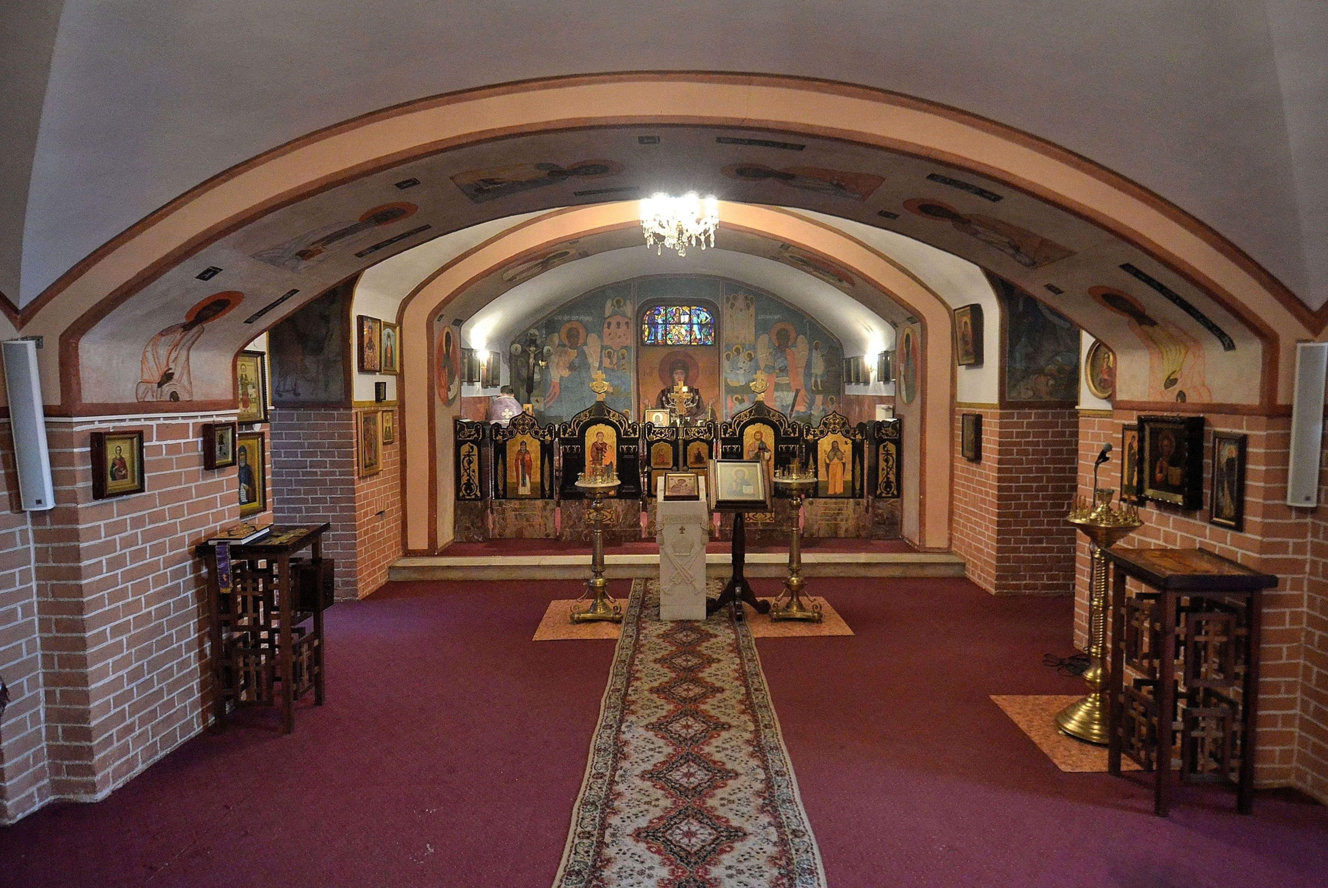 Orthodox church of St. John Climacus in Warsaw (lower church)